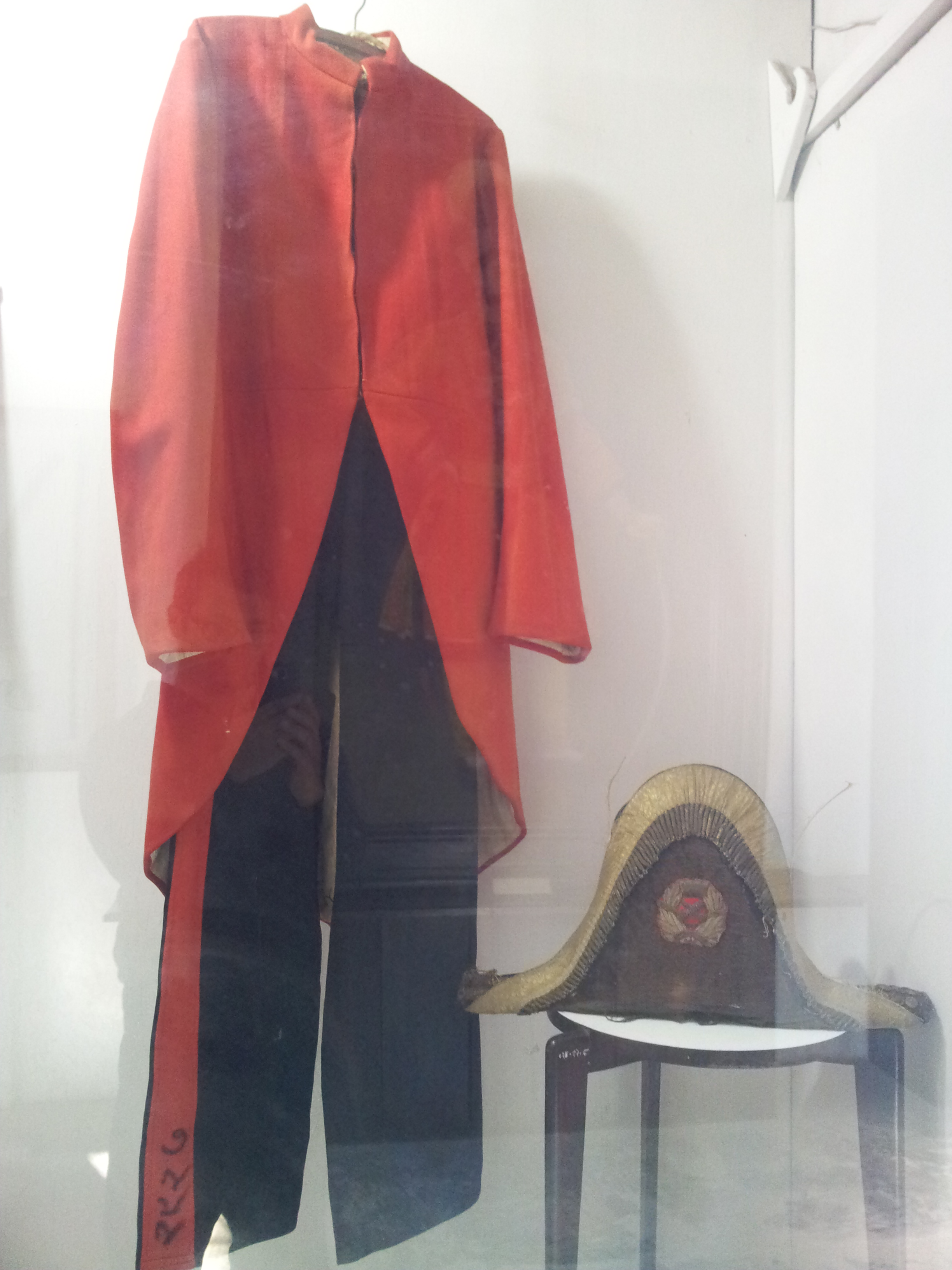 Clothes worn by Bhimsen Thapa preserved in National Museum of Nepal, Chauni